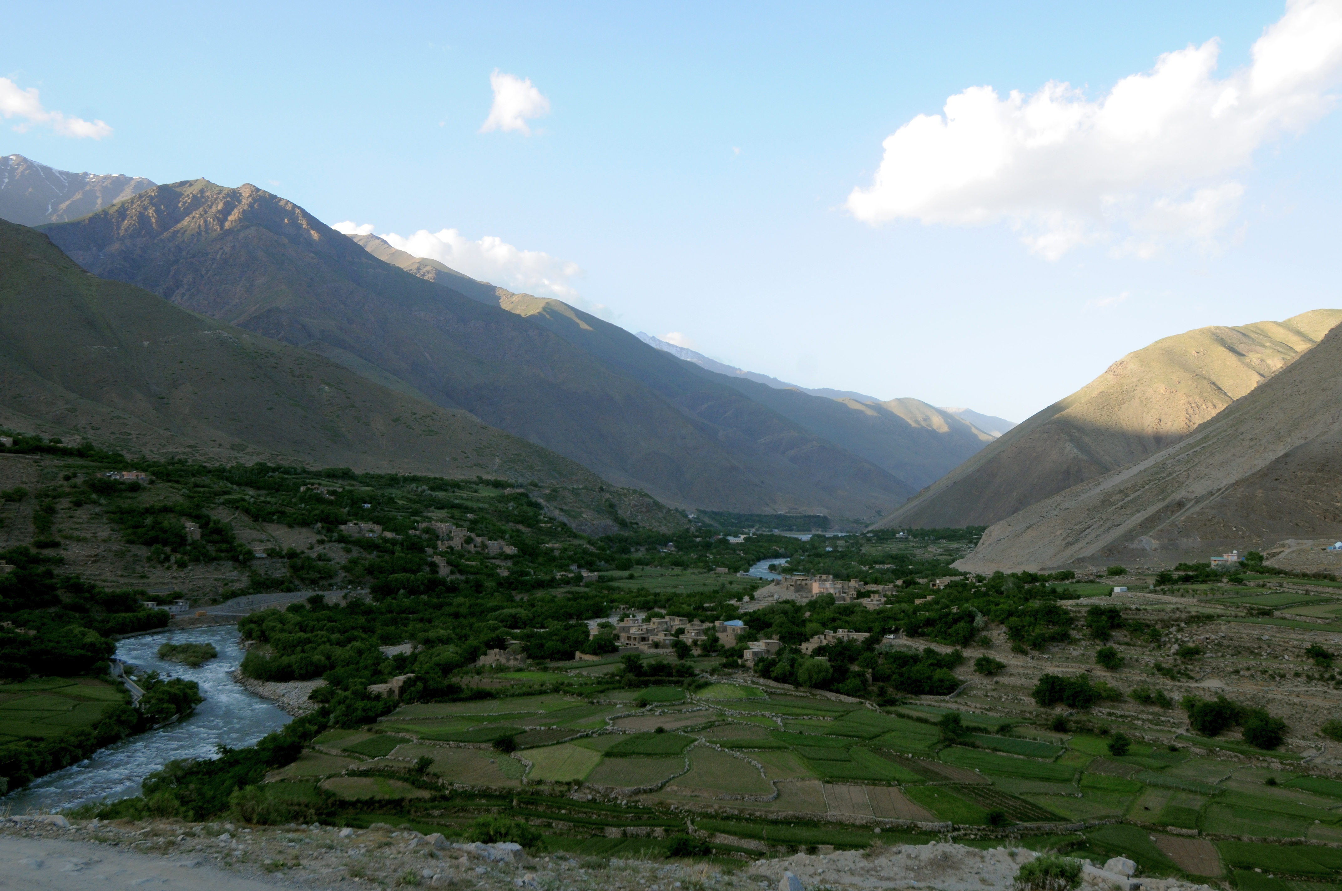 A scenic view of the Panjshayr River Valley, May 21, 2011, taken from the vantage point of Ahmad Shah Massoud's Tomb. Massoud was a Kabul University engineering student turned military leader who played a leading role in driving the Soviet army out of Afghanistan, earning him the name "Lion of Panjshayr." His followers call him Amir Sahib-e Shahid which means our beloved martyred commander. Massoud was assassinated in Takhar province two days prior to the September 11, 2001 terrorist attacks in the United States. Photo by Master Sgt. Michael O'Connor